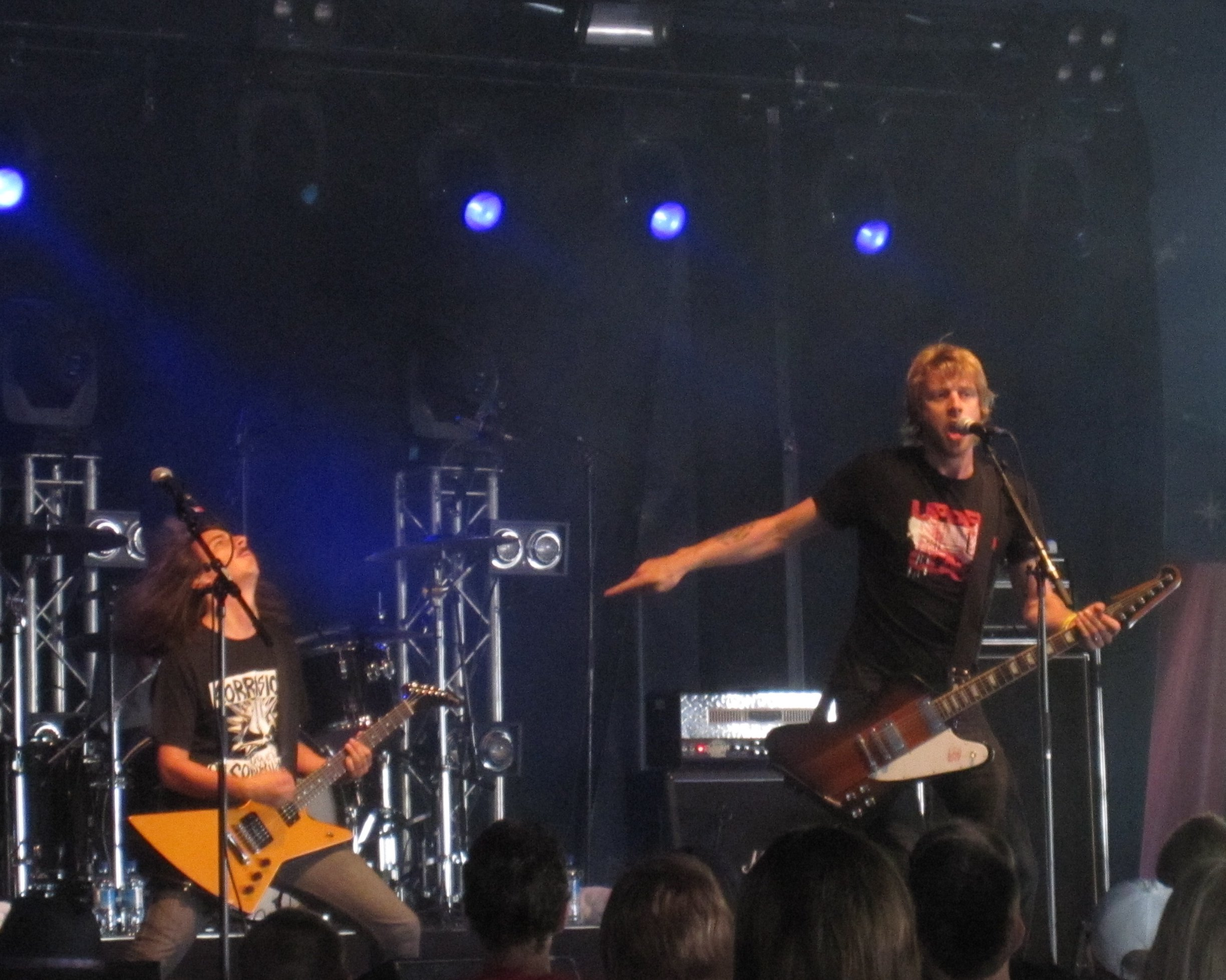 Danish rock band Black City at the Qstock 2012 festival in Oulu.